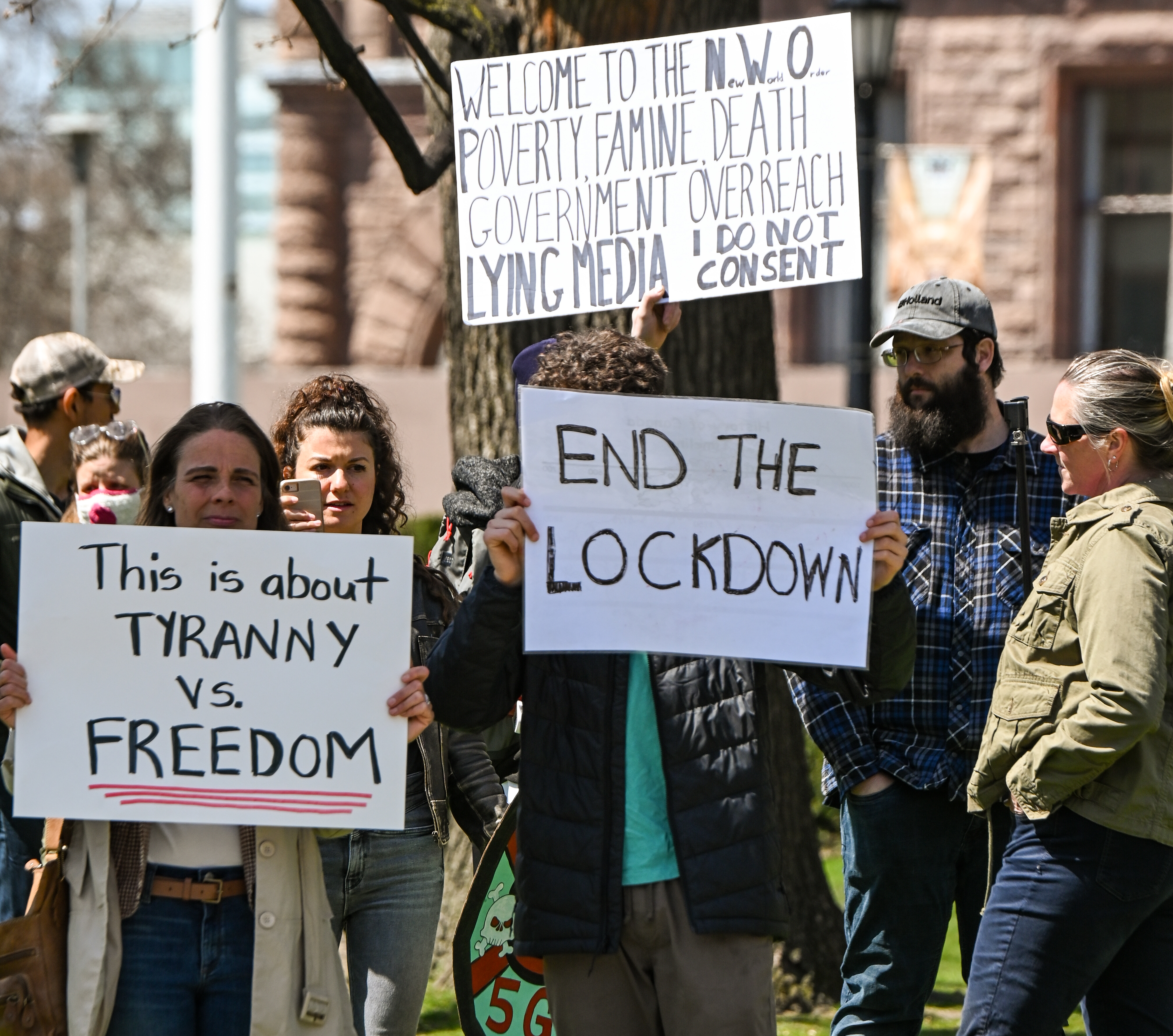 Protesters at Queen's Park on Saturday, April 25 demand an end to public health rules put in place to stop the spread of COVID-19.